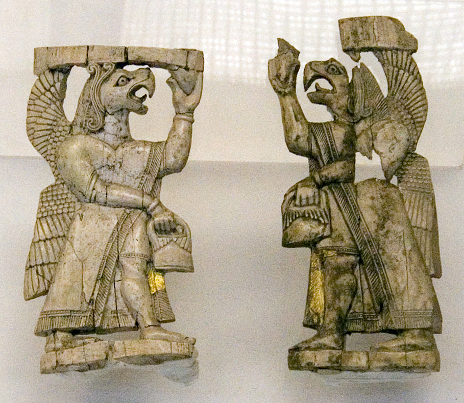 ivory carving from urartu, museum of anatolian civilisation, Ankara, Turkey